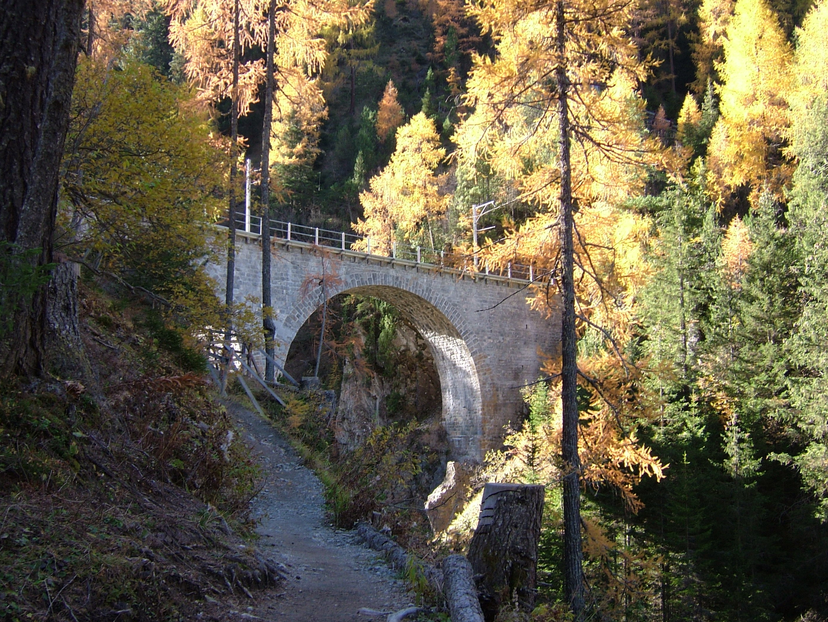 Albula RailwayAlbula viaduct IV in the midst of larches